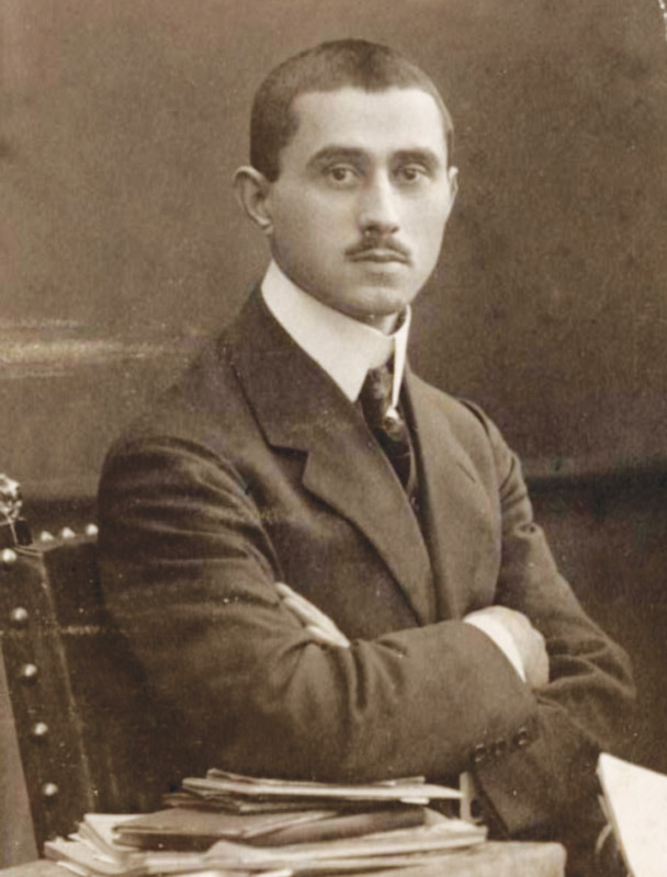 Aurel Vlaicu portrait